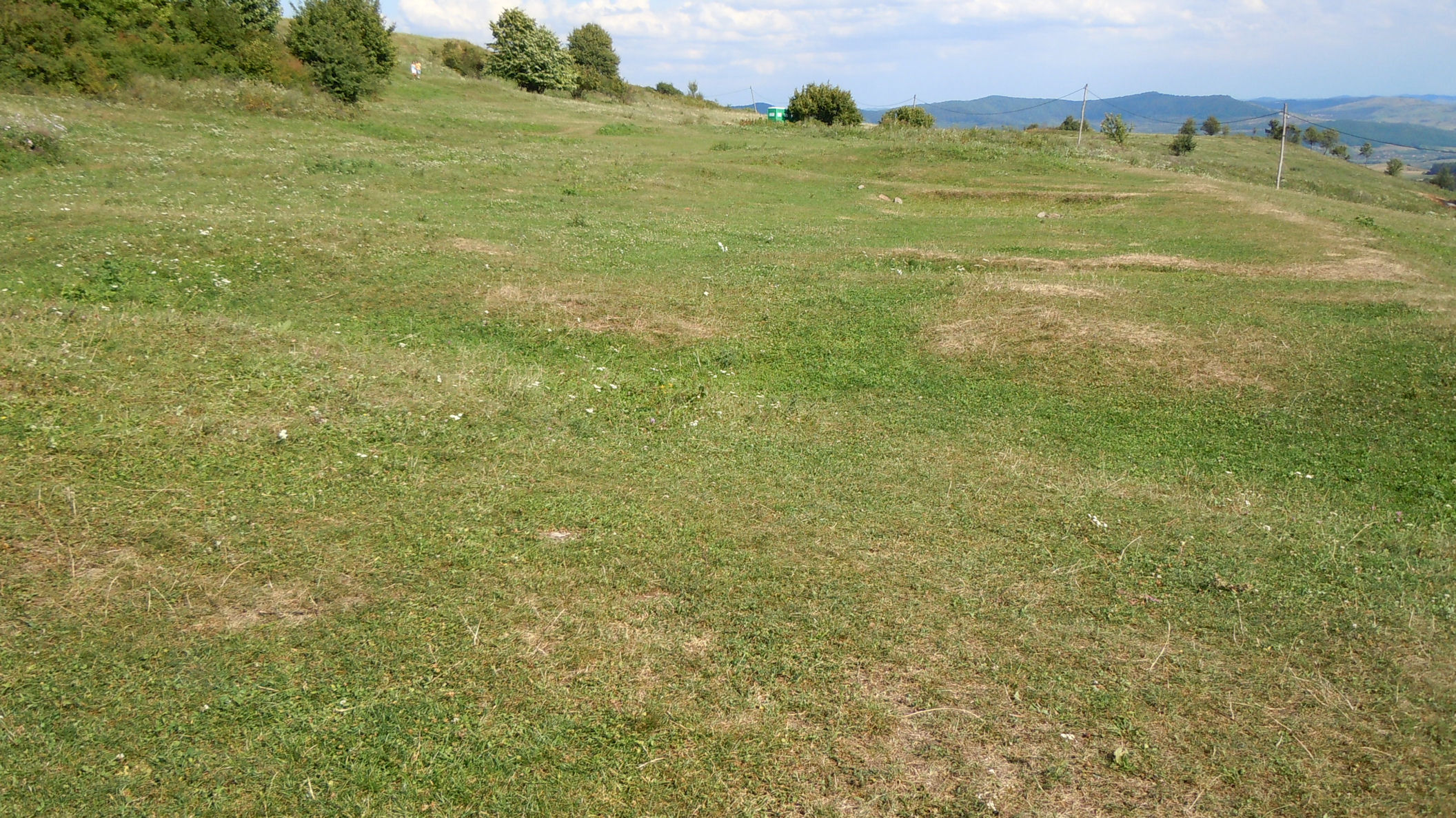 Forum area of Porolissum 03